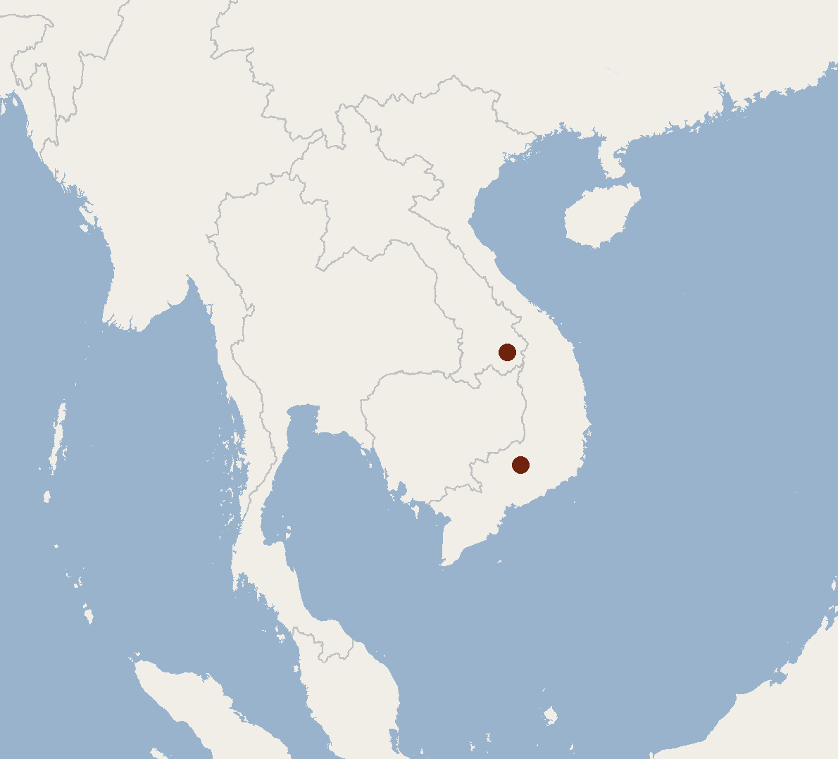 According to Gorfol & Al., 2014